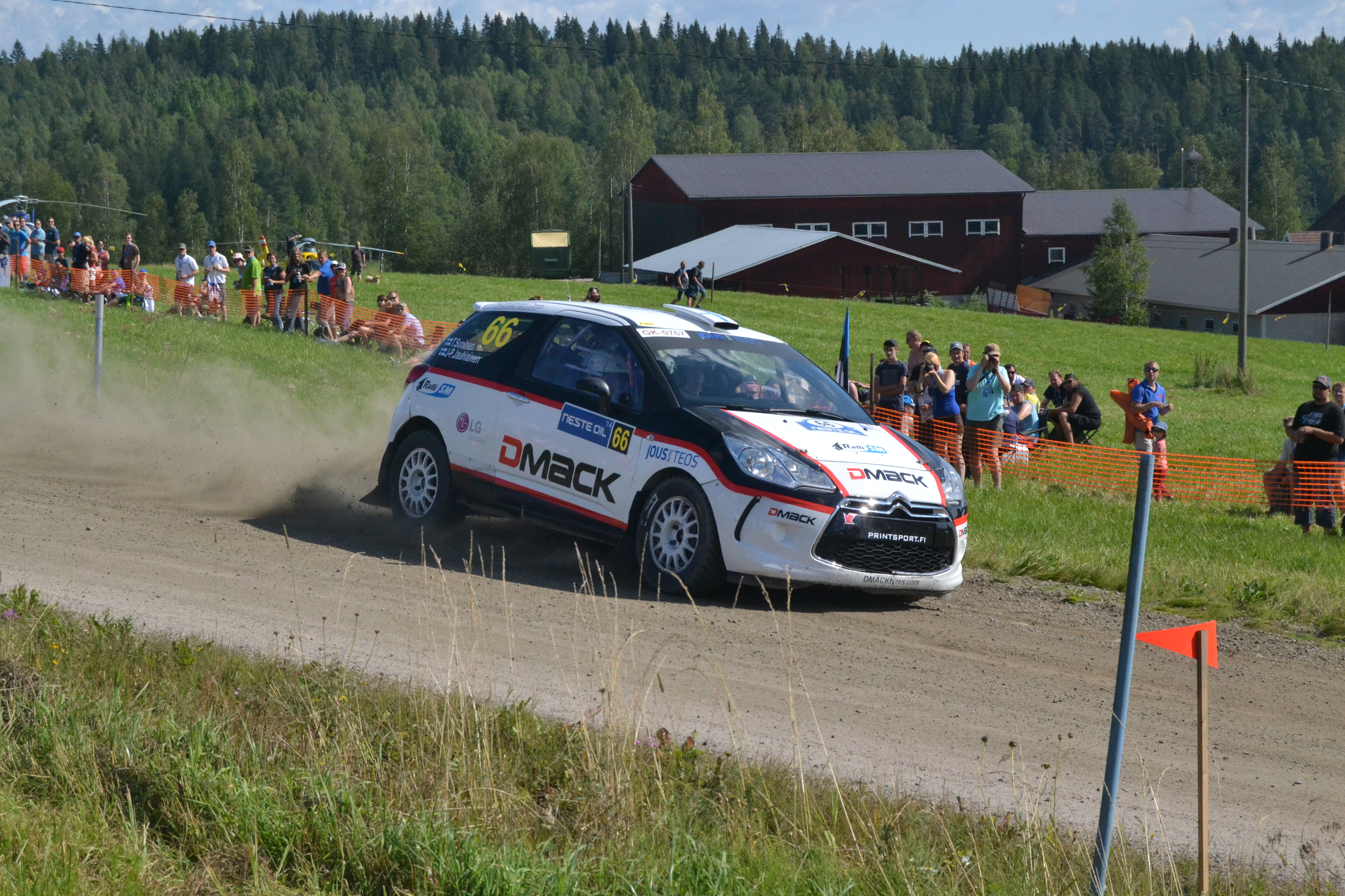 Teemu Suninen at 1st Surkee stage at Rally Finland 2014